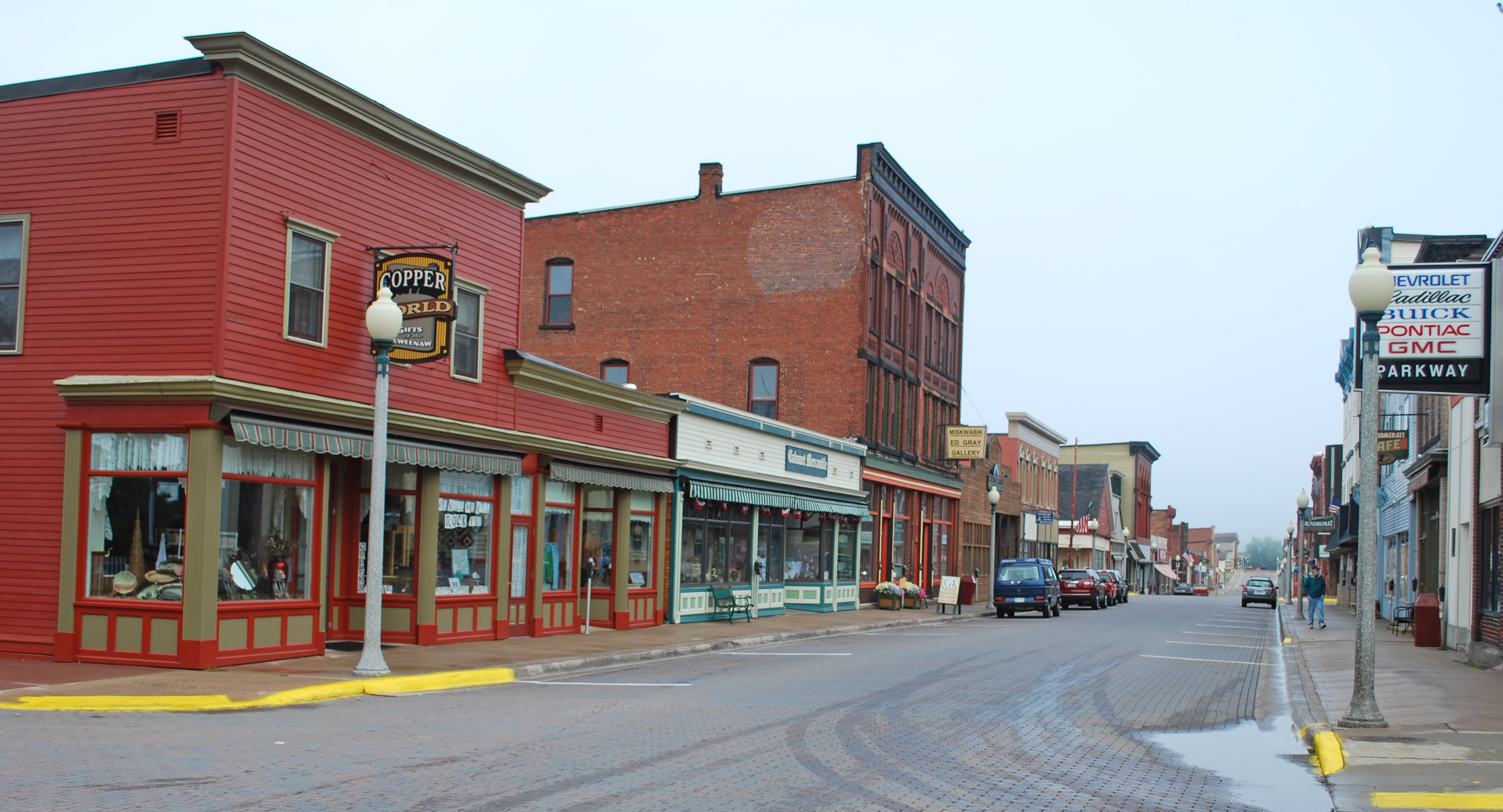 Historic buildings on 5th Street, in the Calumet Downtown Historic District —In Calumet, Upper Peninsula of Michigan. —Also known as the Red Jacket Downtown Historic District.